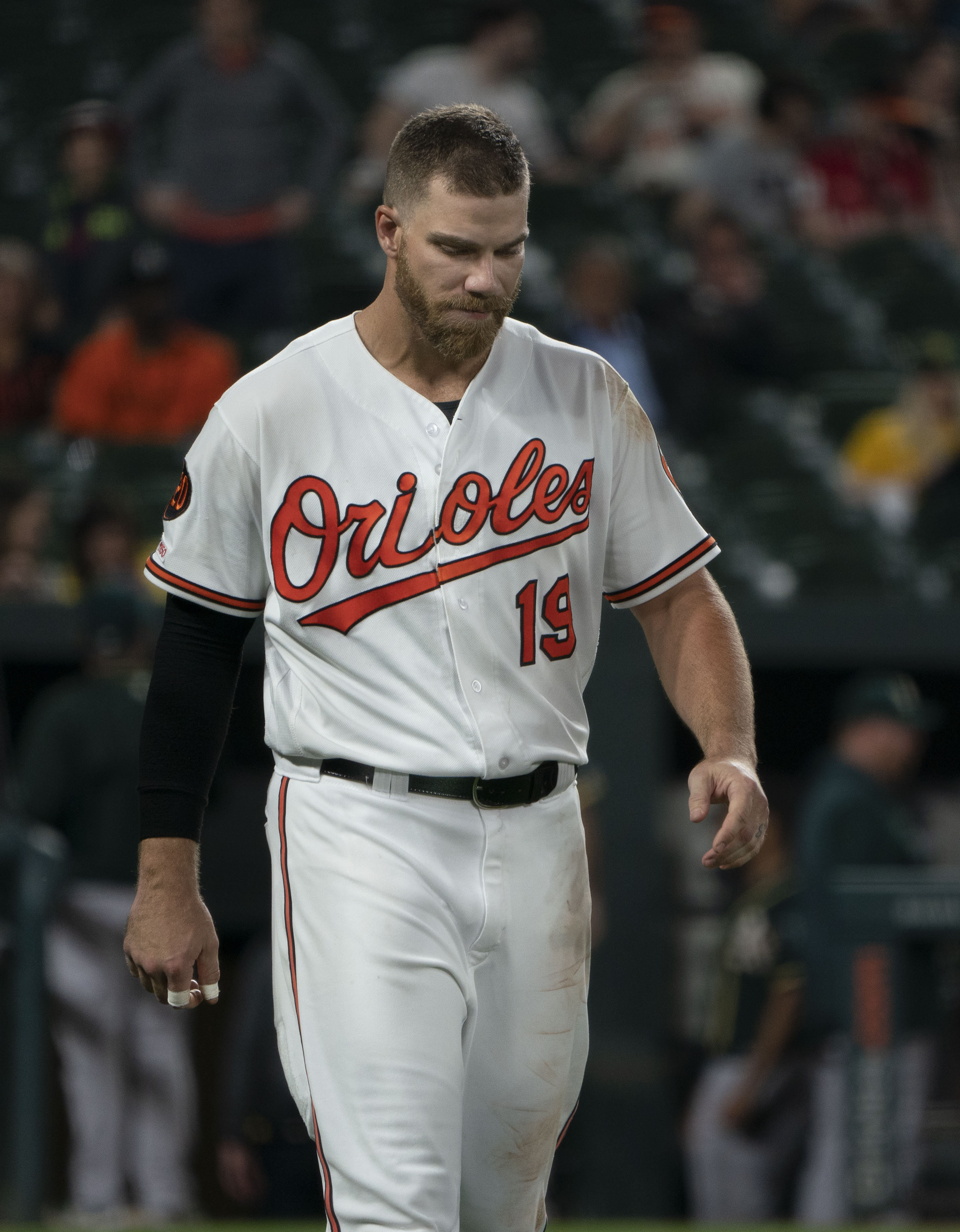 Athletics at Orioles 4/8/19